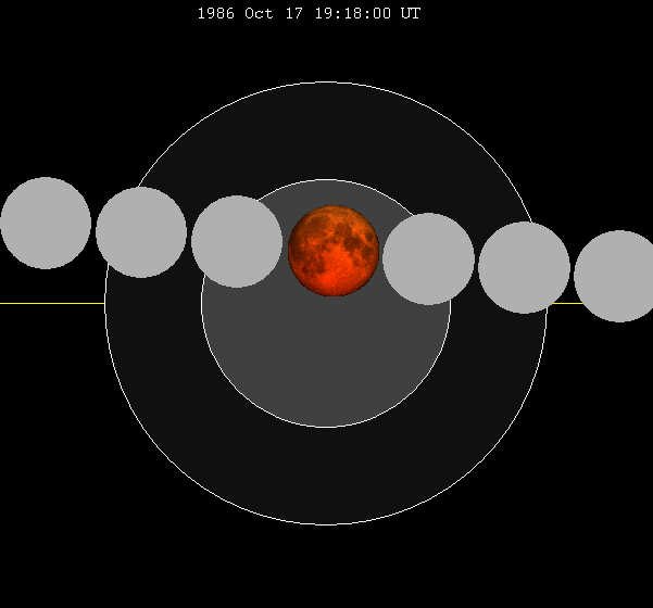 October 1986 lunar eclipse chart of moon's path through the earth's shadow. thumb